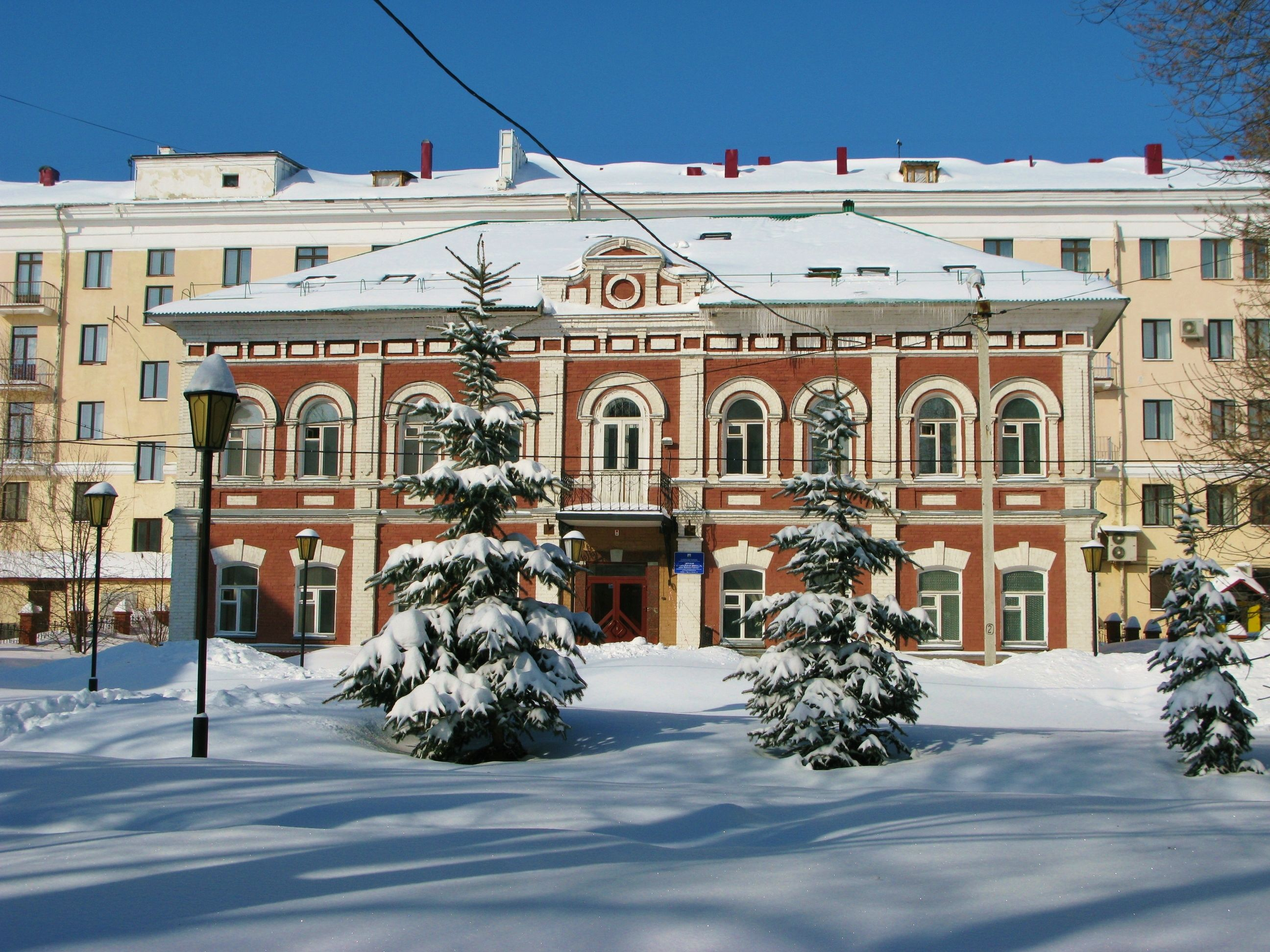 ufa musical school